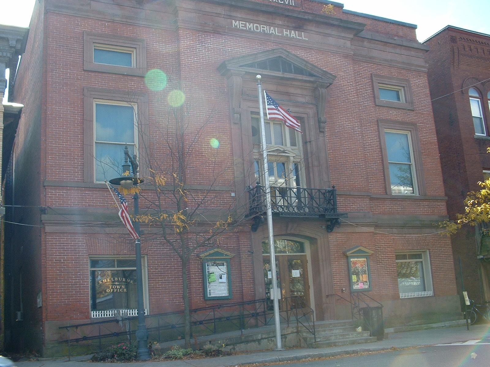 Shelburne Memorial Hall, located in the village of Shelburne Falls, Massachusetts. Shelburne Town Offices, Bridge St, Shelburne Falls, MA